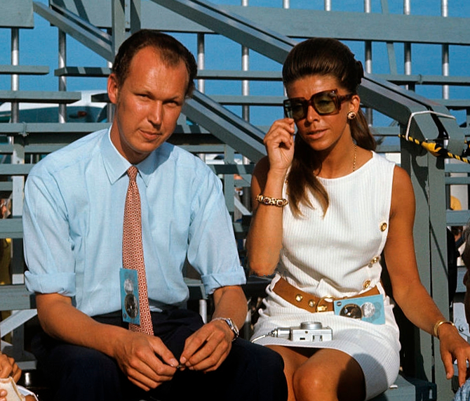 Italian-born Swiss member of the House of Savoy and entrepreneur Vittorio Emanuele di Savoia and his wife, the Swiss water skier Marina Ricolfi Doria, posing with a friend. Cape Canaveral, 16th July 1969